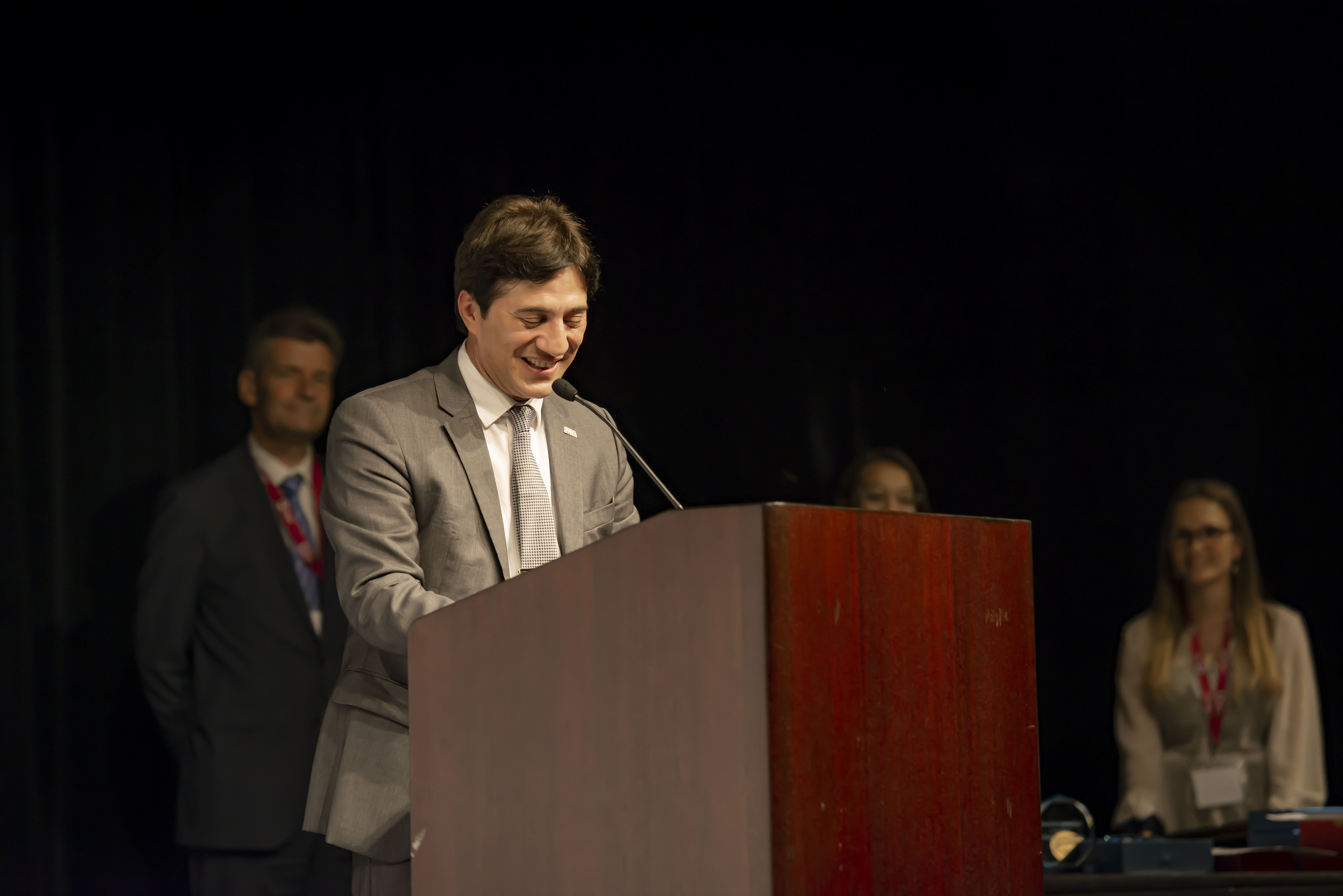 The SVIIF was created to publicize state-of-the-art inventions around the world and provide a unique opportunity for inventors to receive internationally-recognized awards of excellence as a result of their efforts.